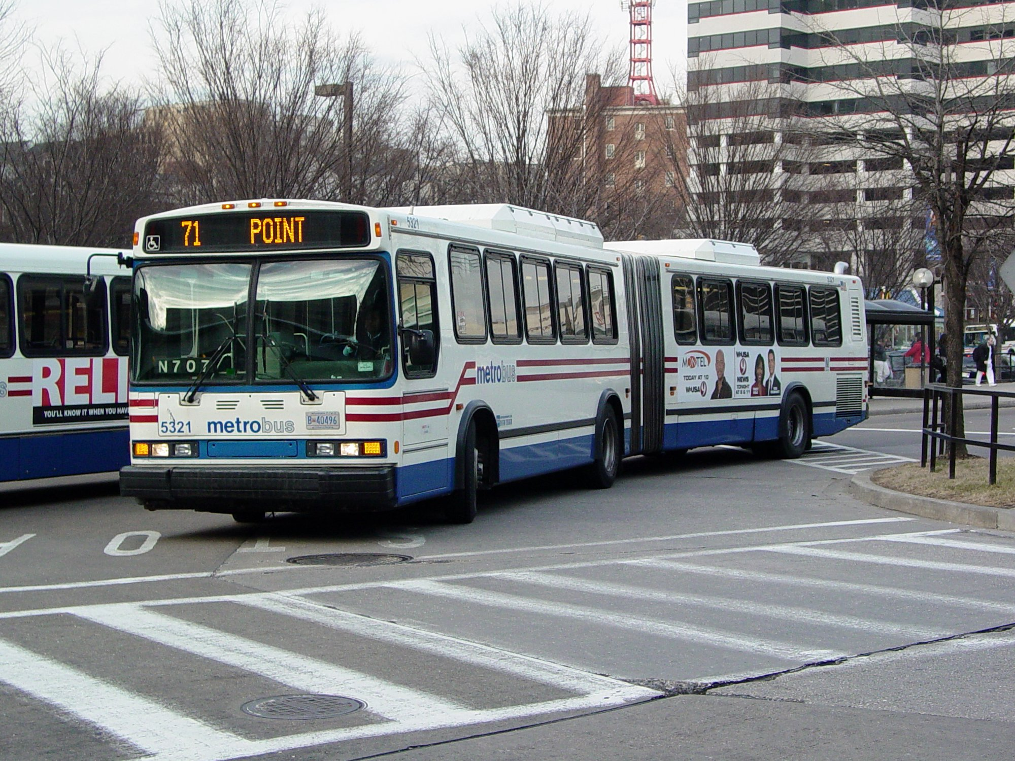 An articulated Neoplan bus arrives at the Silver Spring Metro station on February 9, 2005.